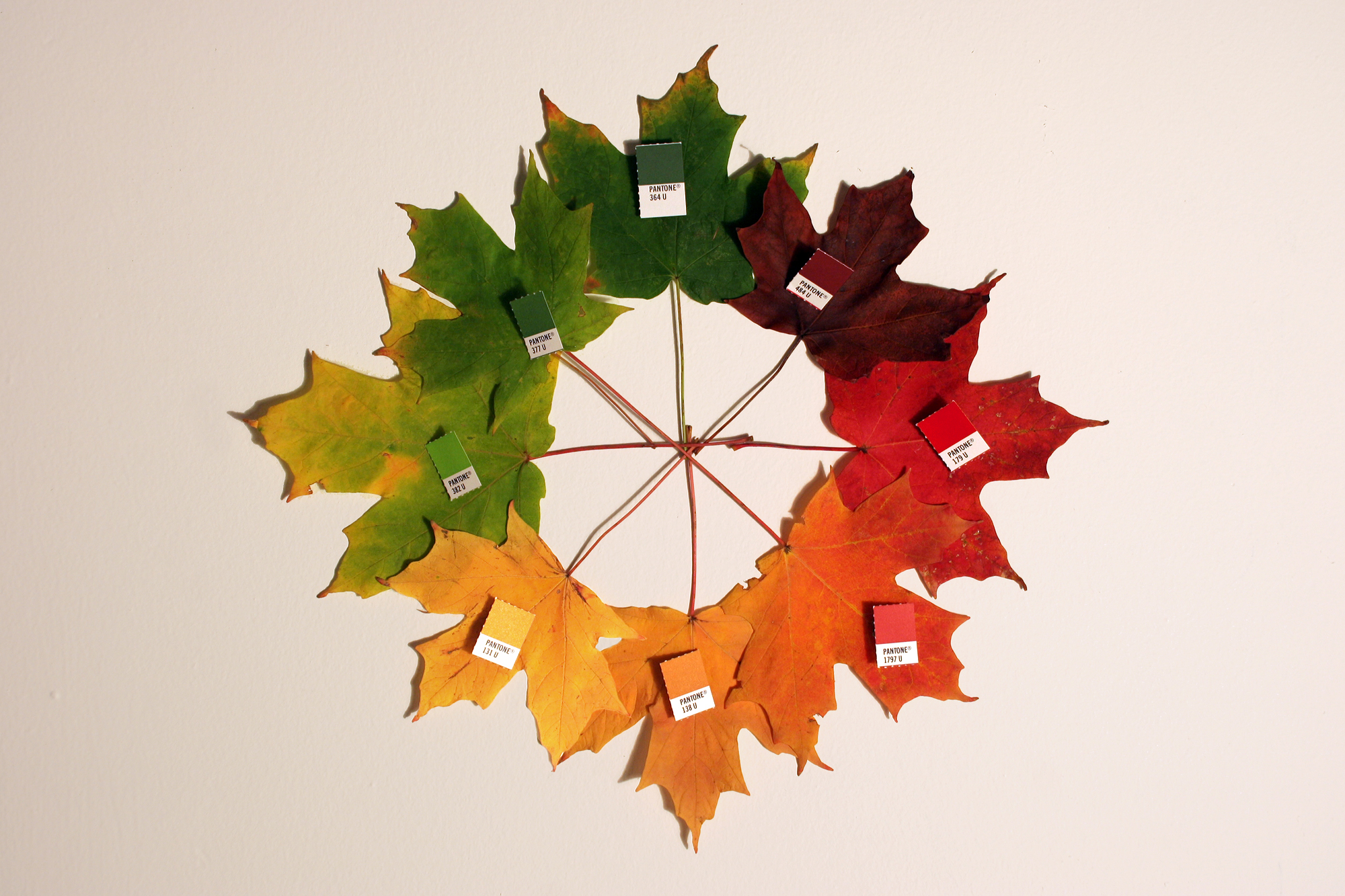 Original description: "pantone autumn - All from the same tree I should add." Sugar Maple Acer saccharum